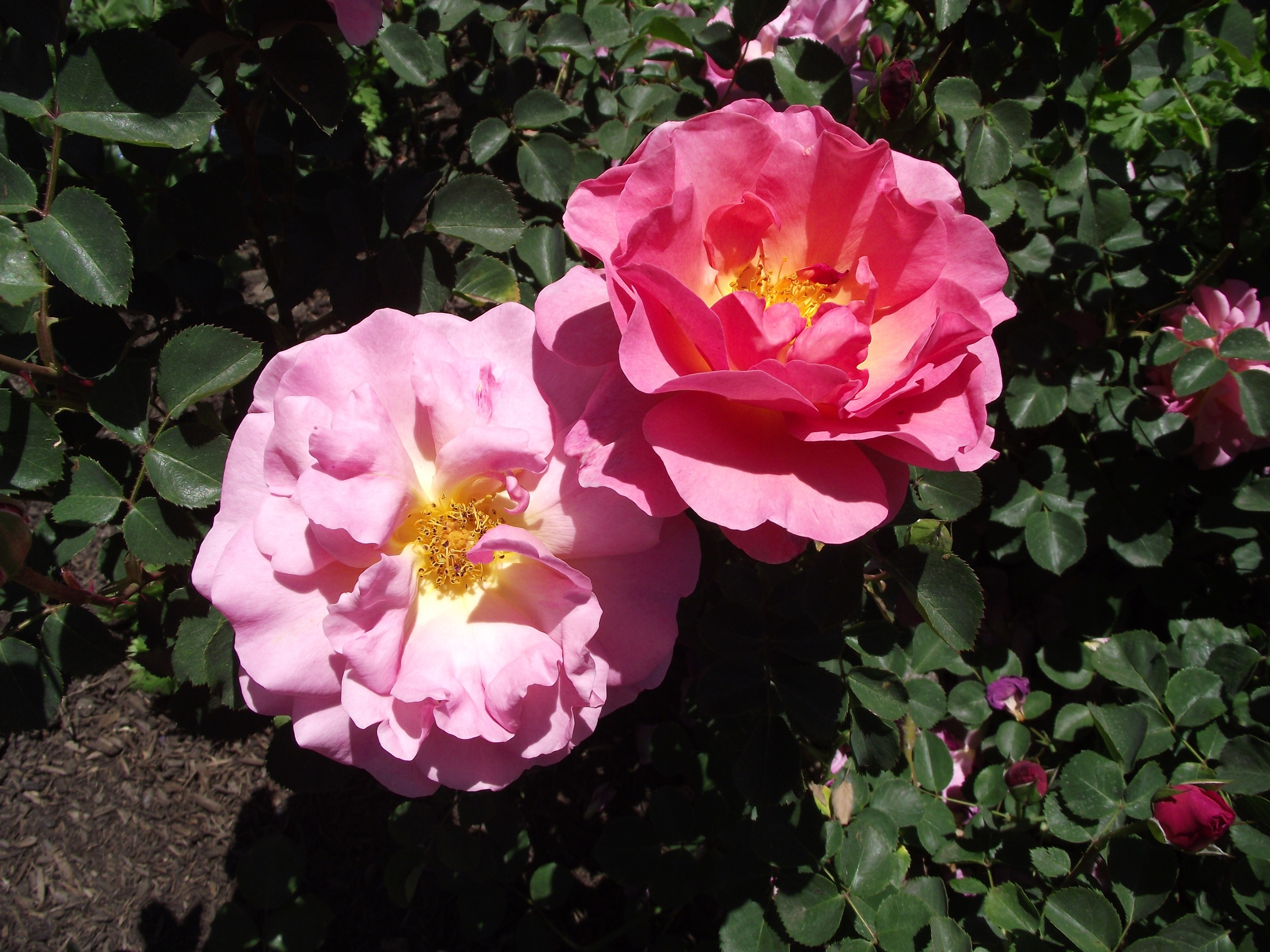 Rosa 'Lilian Austin' at the Los Angeles County Arboretum, Arcadia, California, USA. Identified by sign.